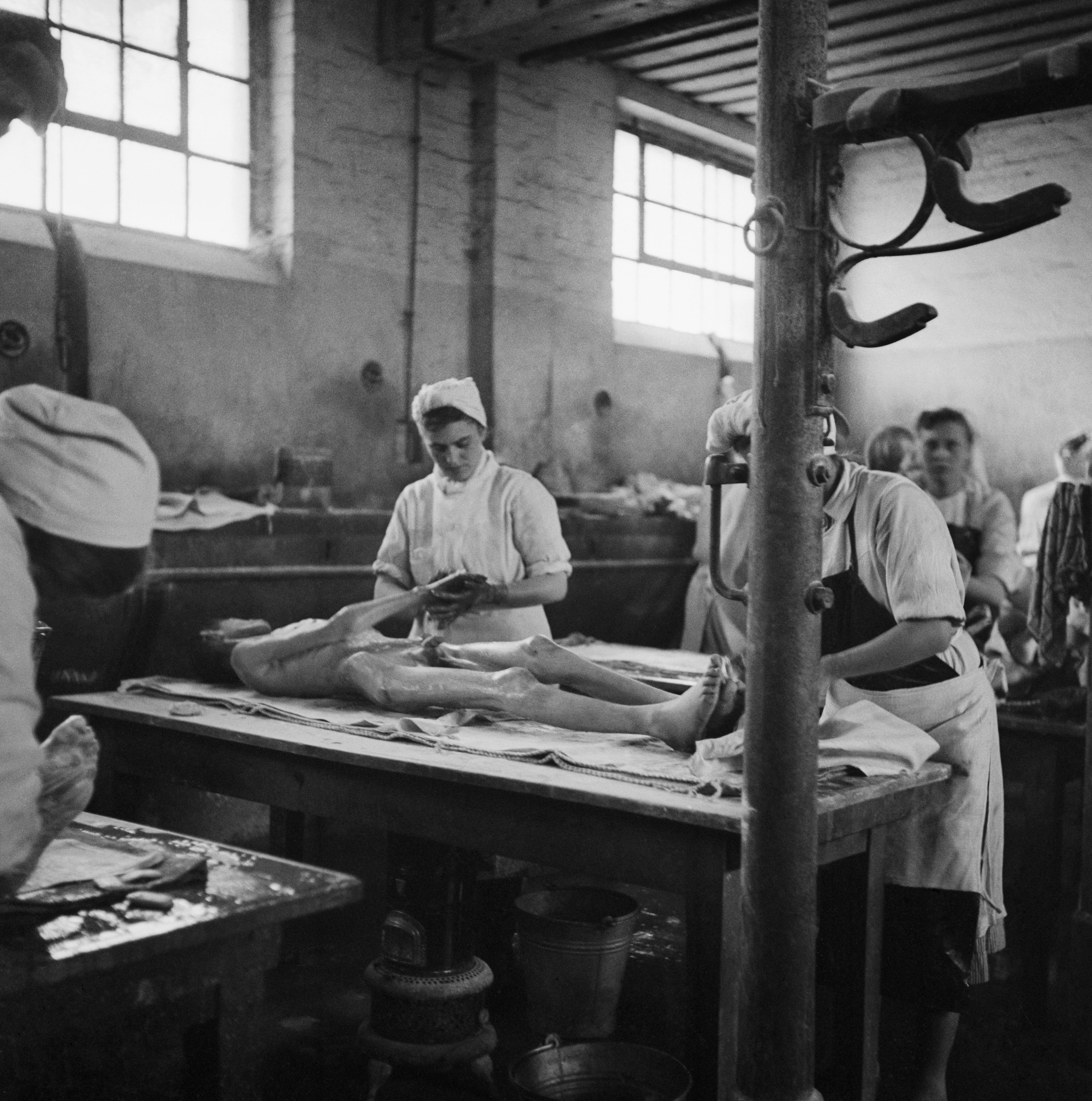 The Liberation of Bergen-belsen Concentration Camp, May 1945 German nurses wash an emaciated man lying on one of the tables in the cleansing station at the newly established hospital at Hohne Miltary Barracks, nicknamed the "Human Laundry".